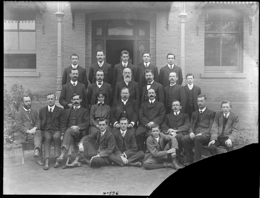 a collection of historical pictures in the Public Domain from the Powerhouse Museum. This files was posted to Flickr by The Powerhouse Museum (See their website for further information). Many thanks to the Powerhouse Museum for helping release this wonderful material. This tag does not indicate the copyright status of the attached work. A normal copyright tag is still required. See Commons:Licensing for more information.